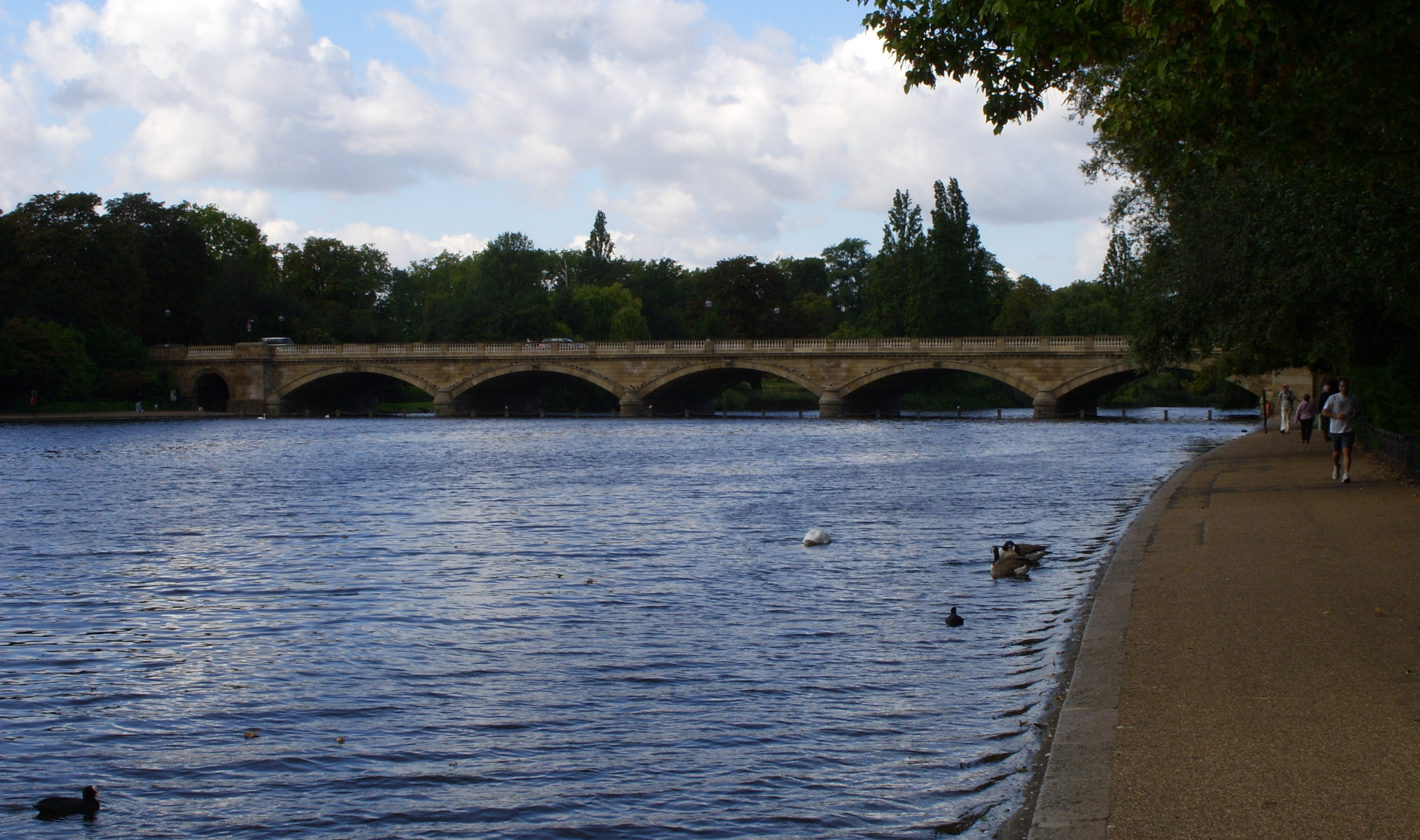 Serpentine Bridge, London